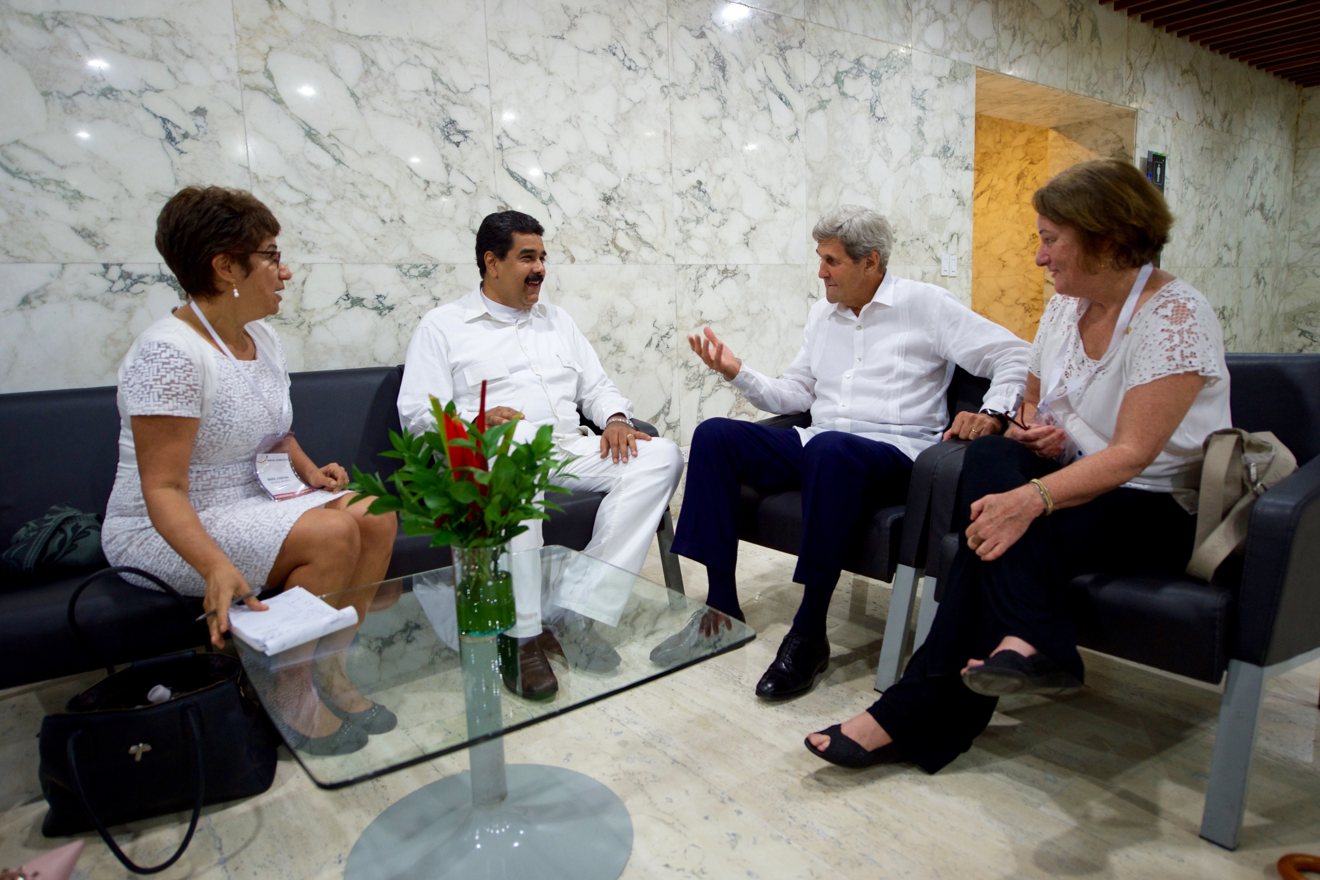 U.S. Secretary of State John Kerry sits with Venezuelan President Nicolás Maduro and their respective translators inside the Cartagena Indias Convention Center in Cartagena, Colombia, on September 26, 2016, at the outset of a bilateral meeting after they both attended a peace ceremony between the Colombian government and the Revolutionary Armed Forces of Colombia (FARC) that ended a five-decade conflict. [State Department Photo/Public Domain]